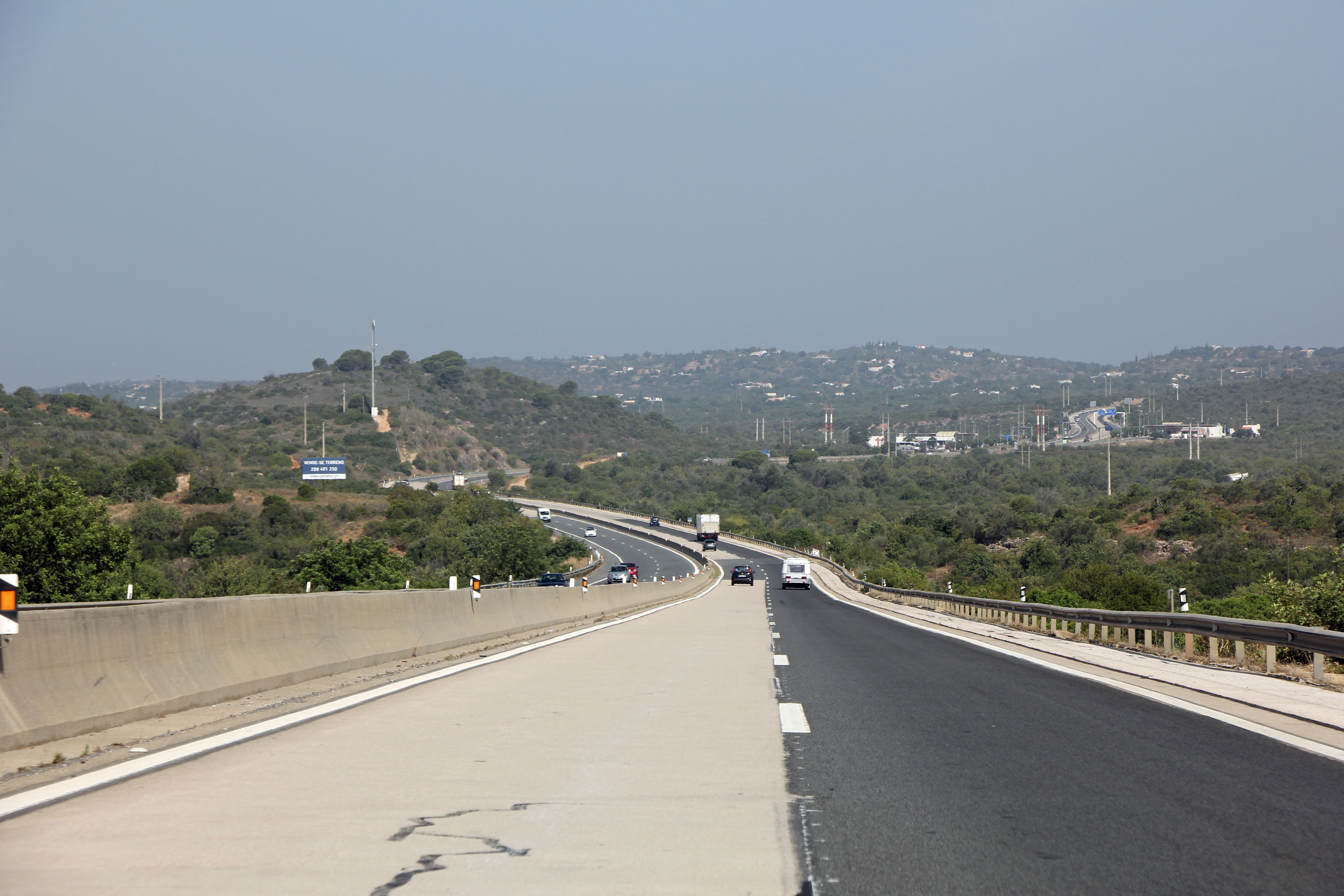 on the Highway A22 leading through the Algarve